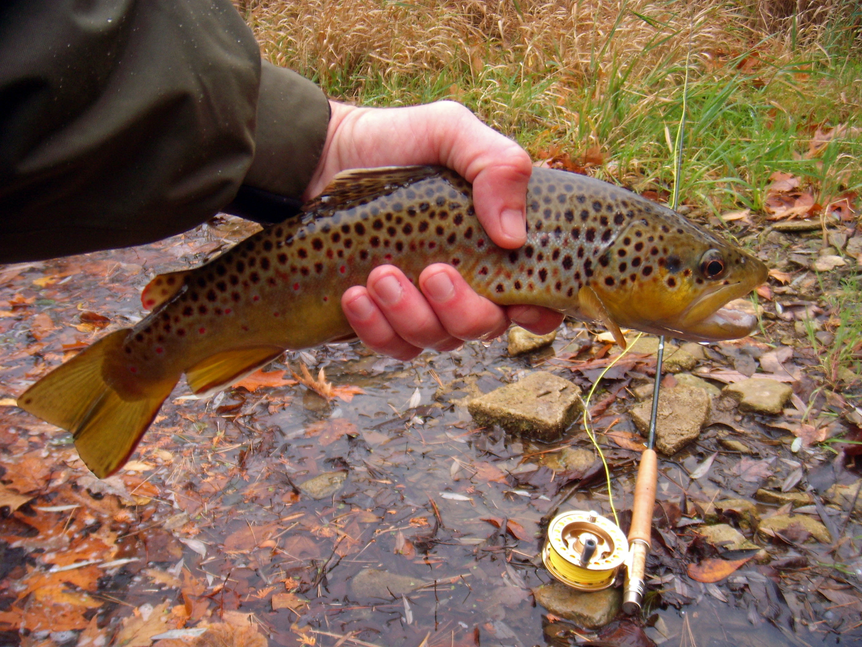 Little brown trout caught in Oatka Creek Park near Scottsville, NY, USA